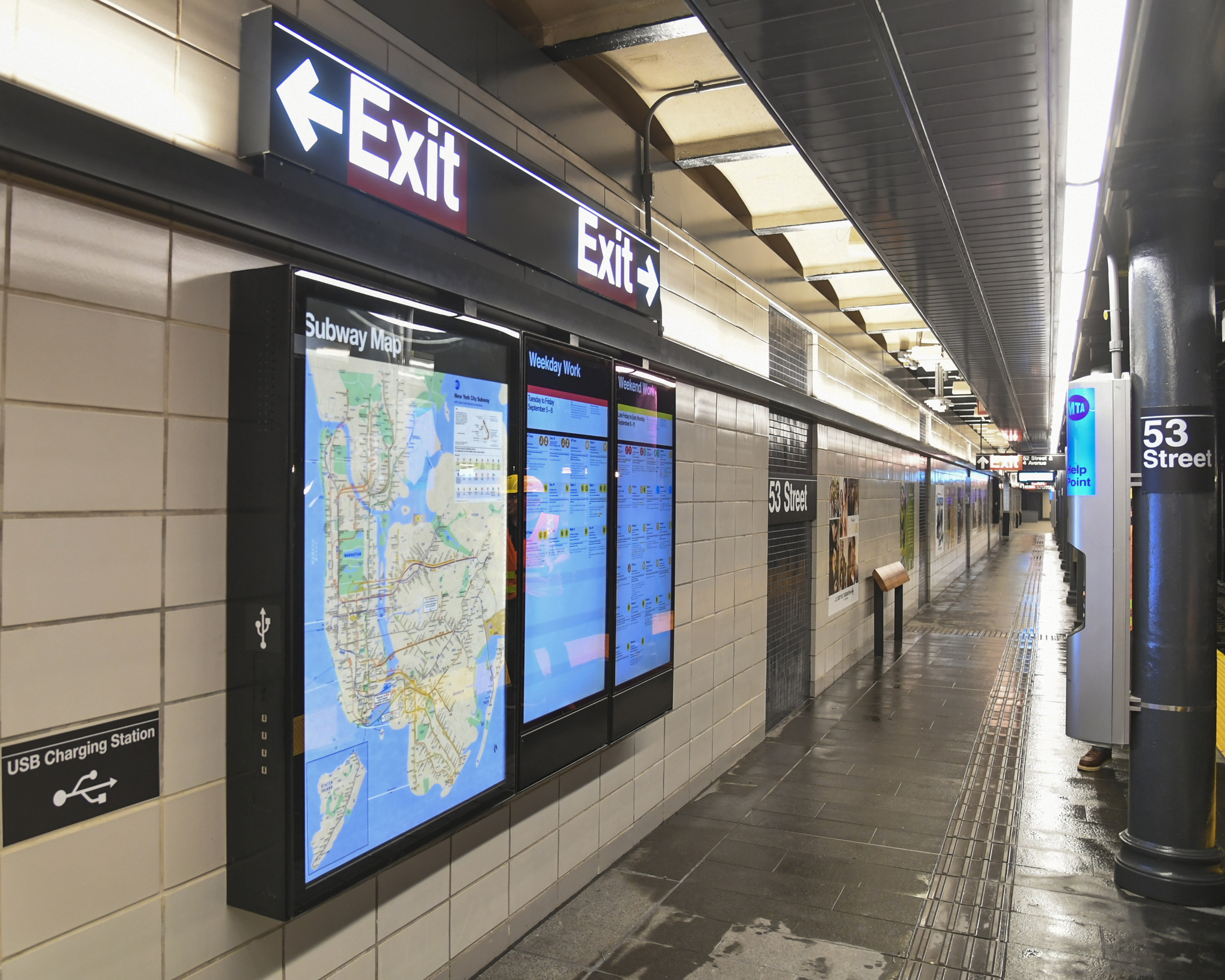 MTA Managing Director Veronique "Ronnie" Hakim reopened the 53 St Station on the R line in Brooklyn on Fri., September 8, 2017, after a rehabilitation under the Enhanced Station Initiative (ESI.) The initiative modernizes stations and features improved customer experience. Photo: Marc A. Hermann / MTA New York City Transit